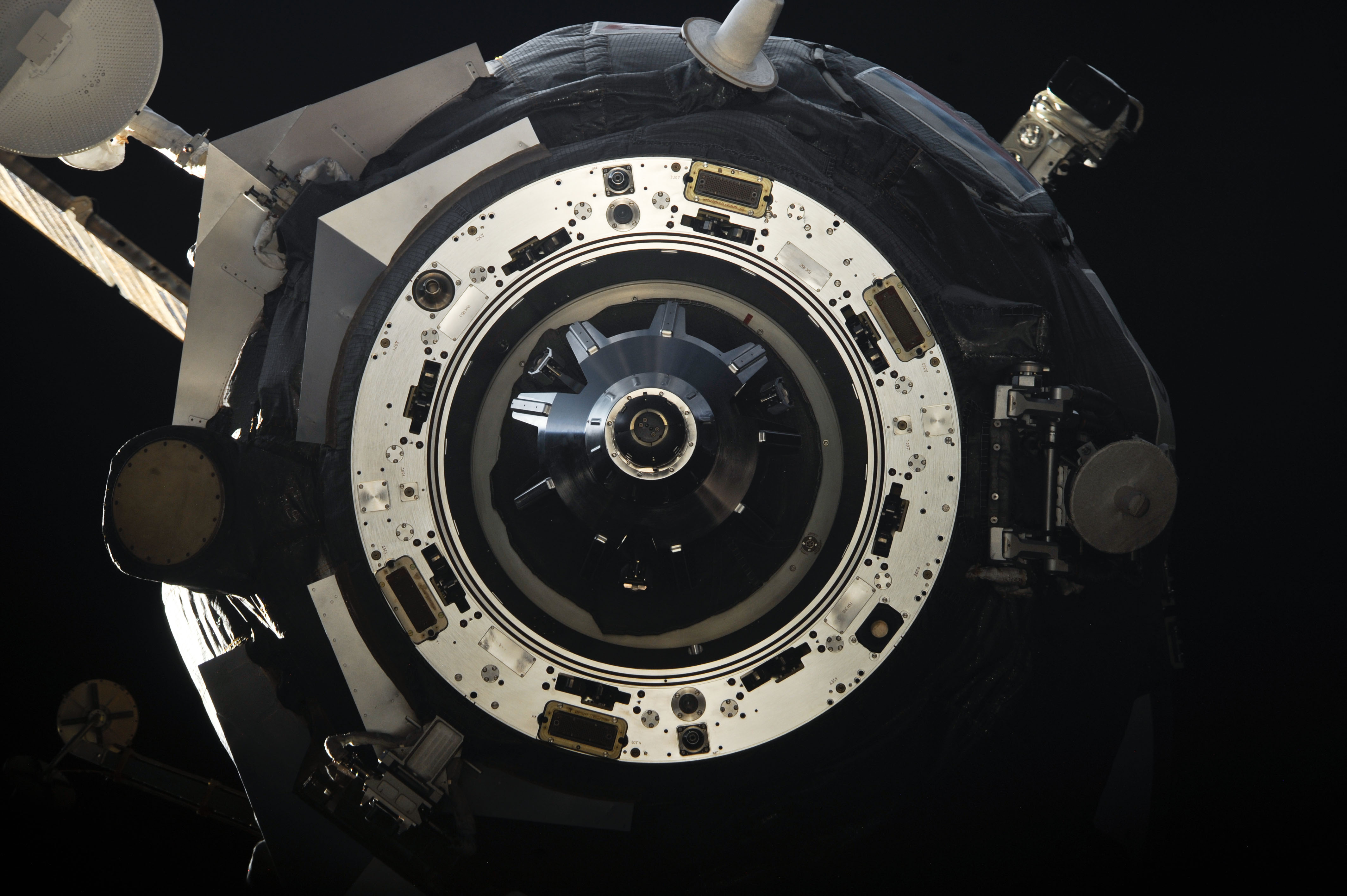 The unpiloted ISS Progress 43 supply vehicle departs from the International Space Station on Aug. 23, 2011. Filled with trash and discarded items, Progress 43 will remain in orbit a safe distance from the station for engineering tests before being commanded by flight controllers to descend to a destructive re-entry into Earth's atmosphere over the Pacific Ocean.